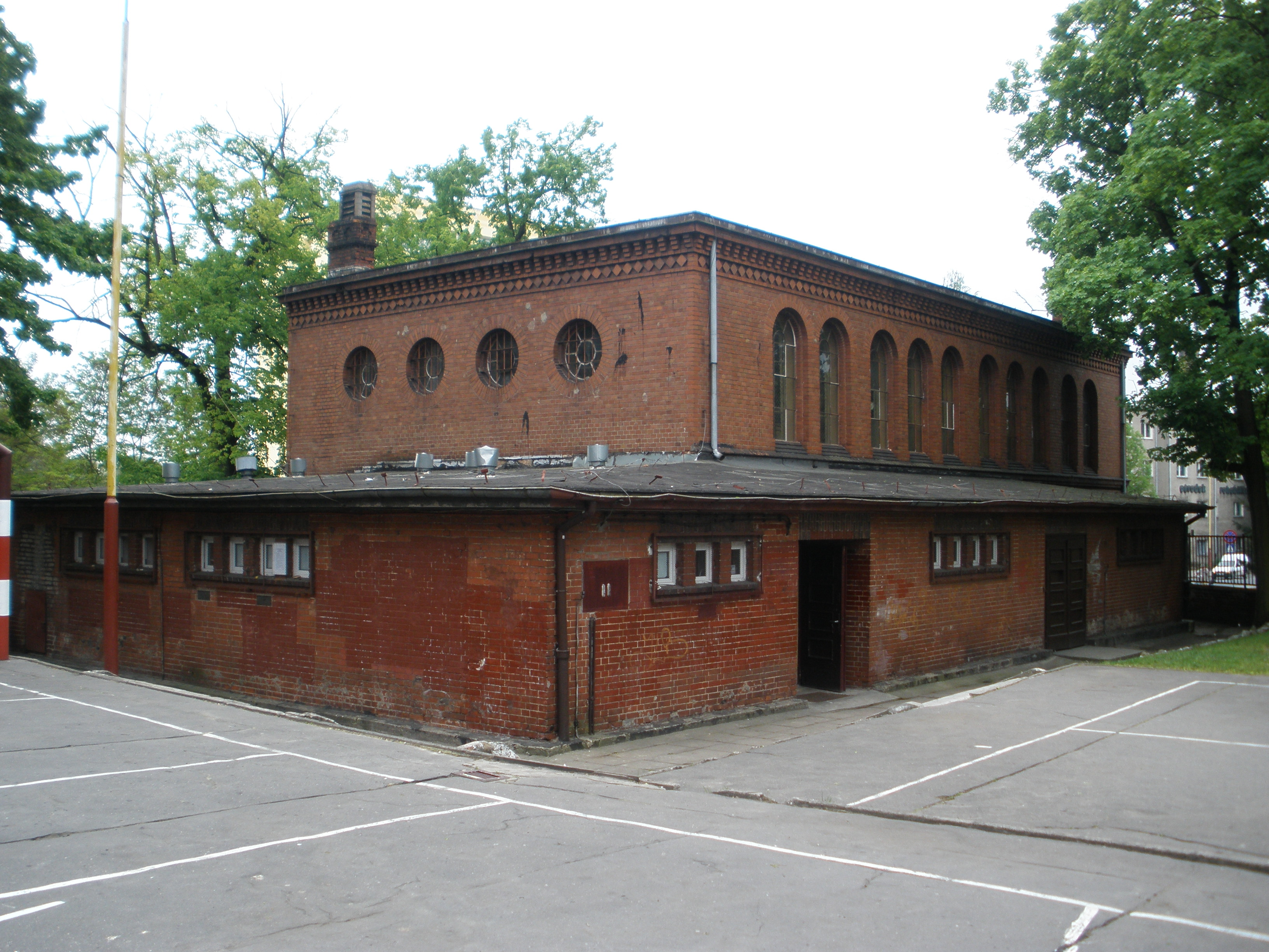 Building which belongs to ILO in Stargard Szczeciński.